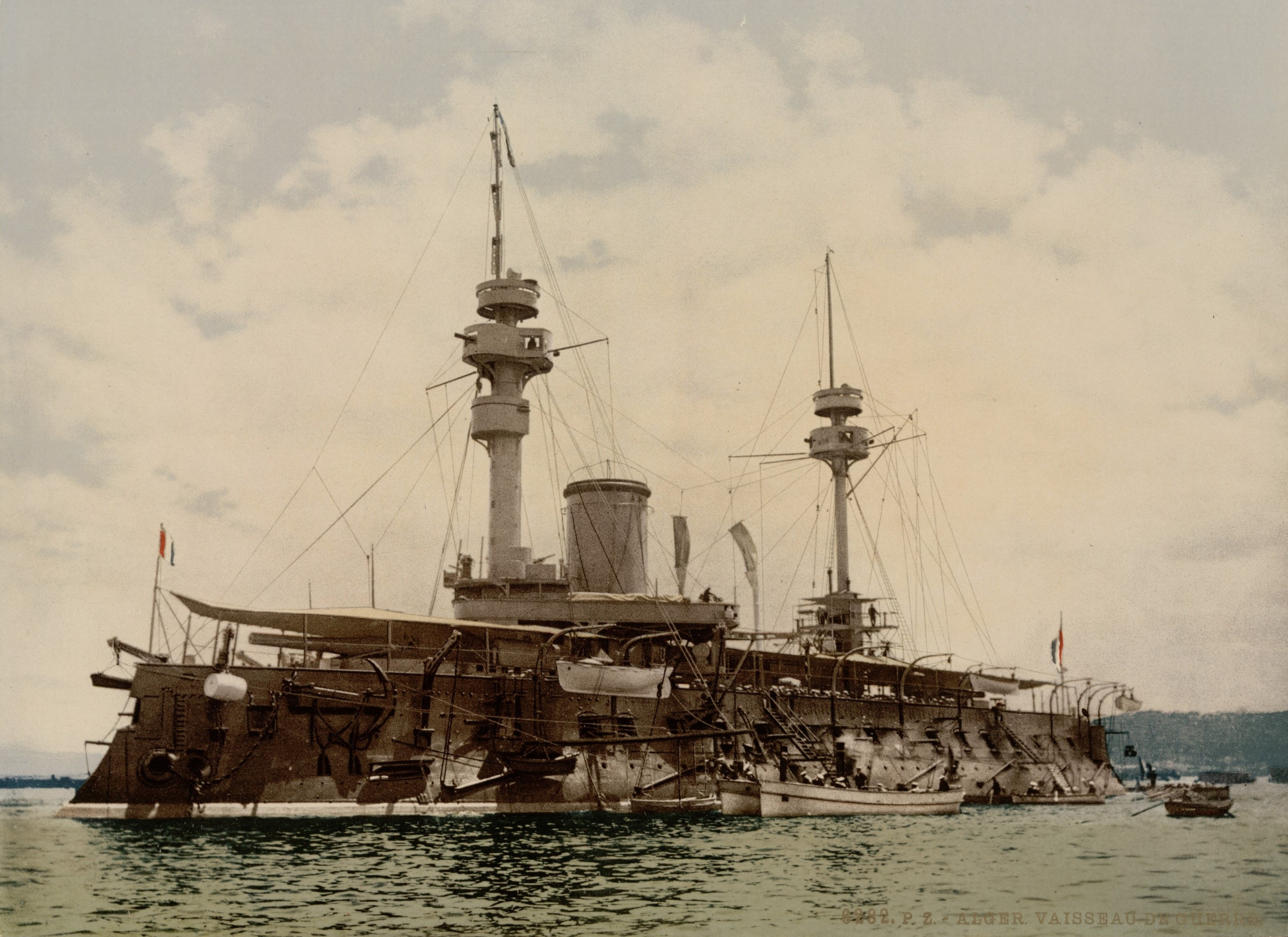 French battleship Formidable in Algiers